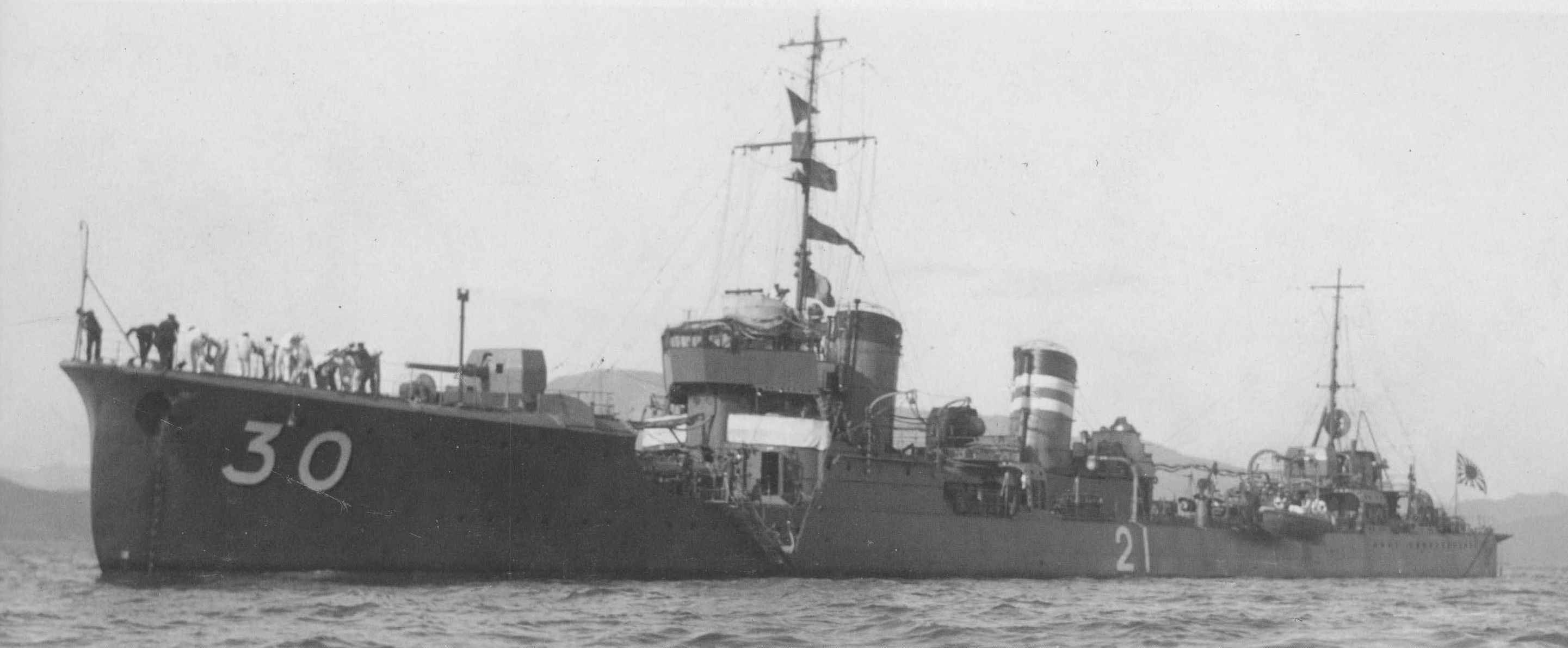 Imperial Japanese Navy destroyer Kisaragi, the second Japanese warship to bear that name.